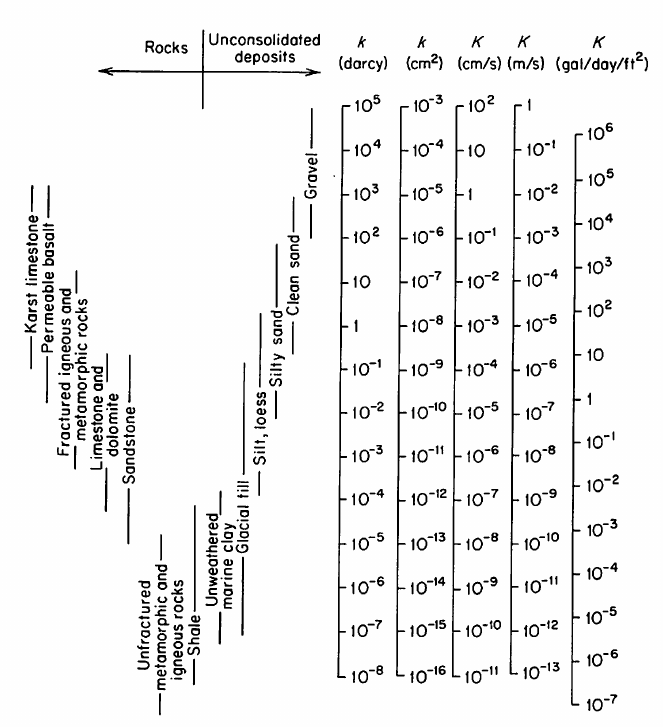 a table showing ranges of values of hydraulic conductivity and permeability for various geological materials This table was originally published in Freeze and Cherry's 1979 book Groundwater, but it has now been released online under a Creative Commons license.